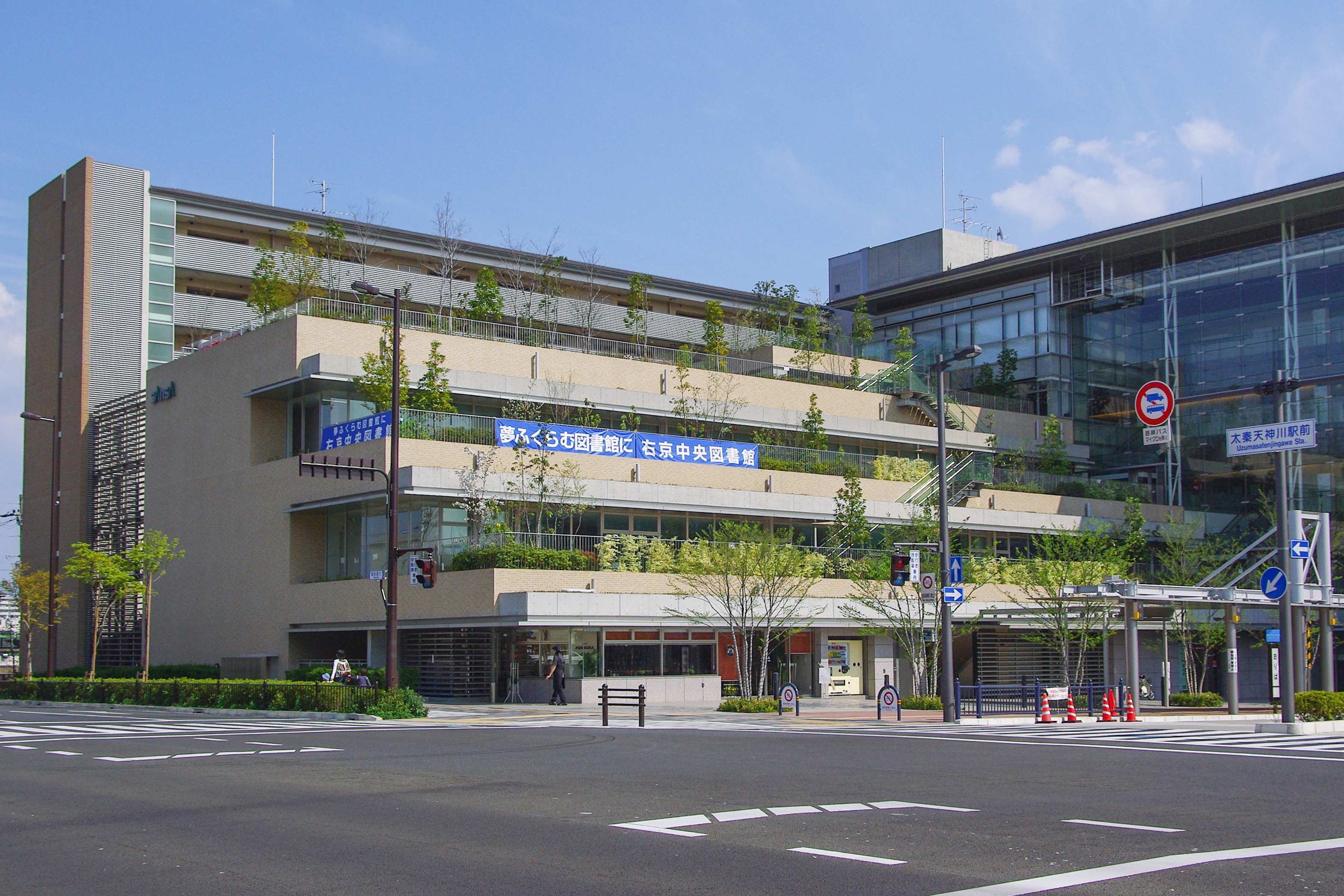 Photograph of the east site of Sansa Ukyo, including Ukyo Government Office Complex, Ukyo Central Library, Ukyo Area Gymnasium and condominium apartment, in Ukyo-ku, Kyoto, Kyoto Prefecture, Japan.